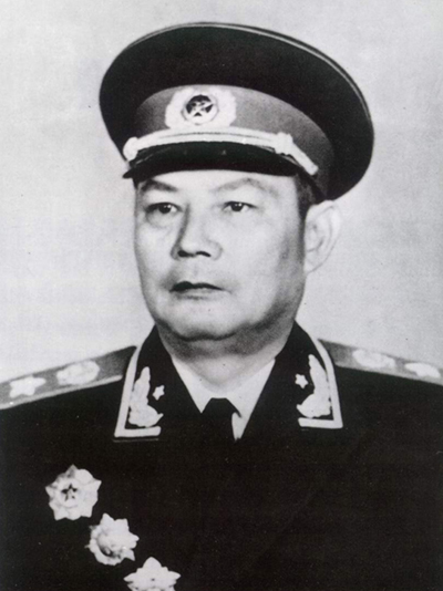 Ye Jianying (simplified